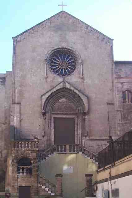 San Domenico church (Taranto)